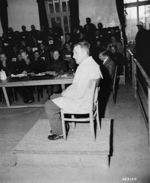 Wilhelm Wagner, defendant and former supervisor of the camp laundry, testifies at the trial of former camp personnel and prisoners from Dachau.